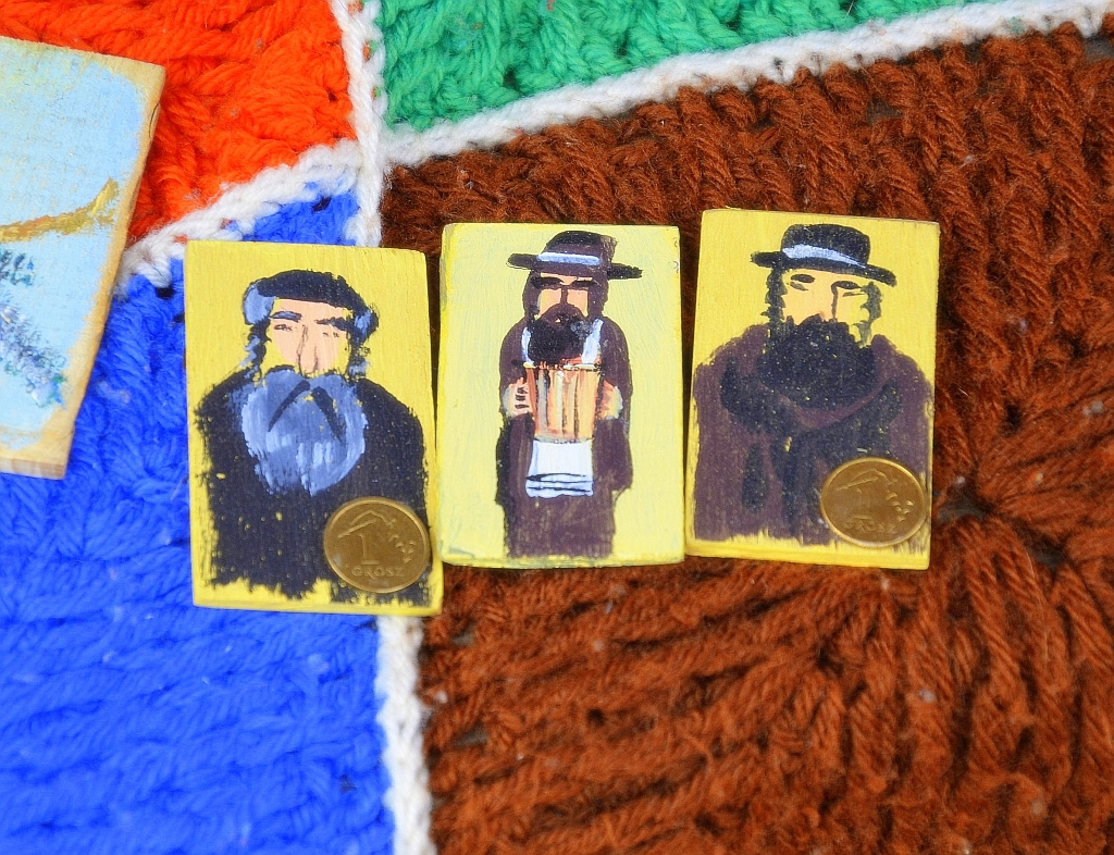 Jew holding Coins